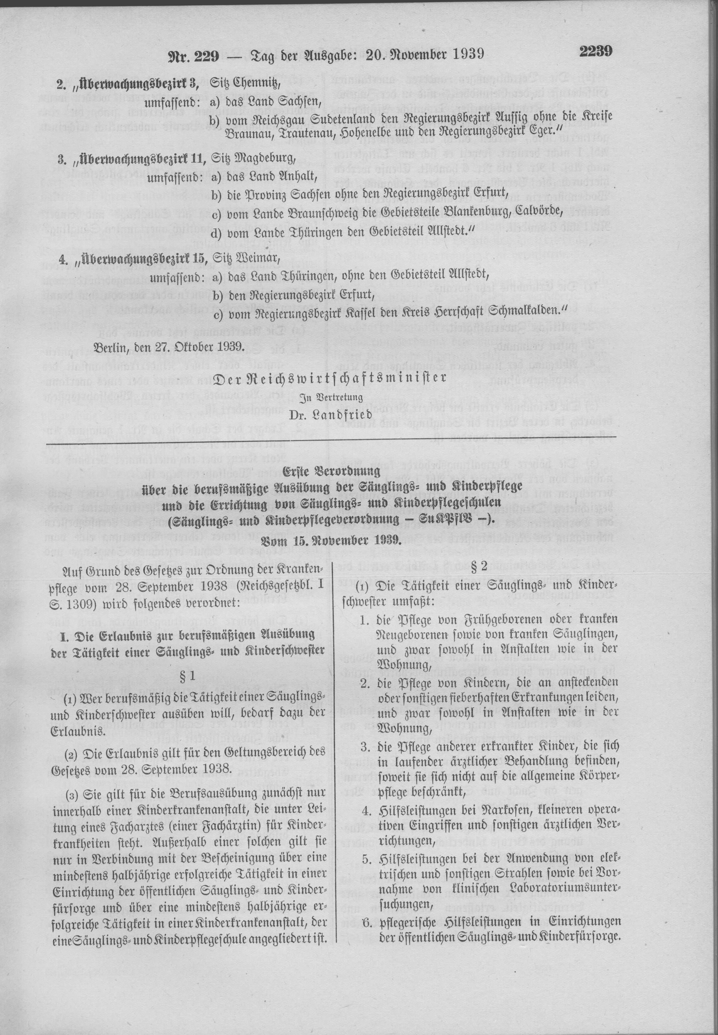 Scan from the Imperial Law Gazette of Germany, 1939, part 1